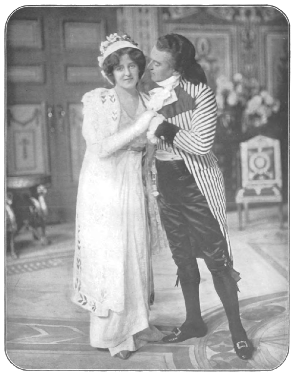 Illustration scanned from Play Pictorial, showing Robert Evett as Dorlis and Denise Orme as Illyrine in The Merveilleuses at Daly's Theatre, London, in October 1906.